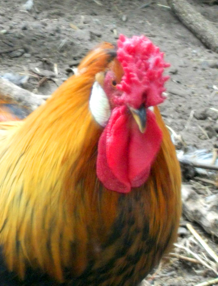 Icelandic rooster colored black, red and gold with a large rose comb. Hamilton, Montana.